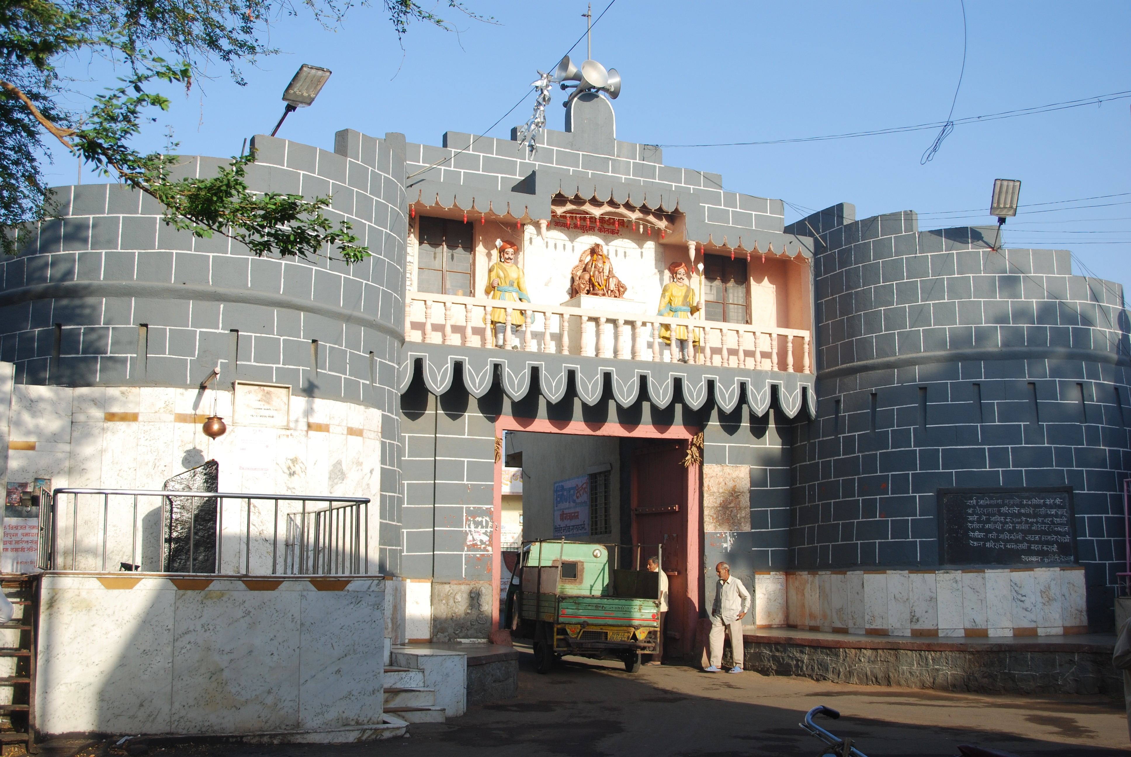 Village Entrance of Kedgaon, Ahmednagar in India.